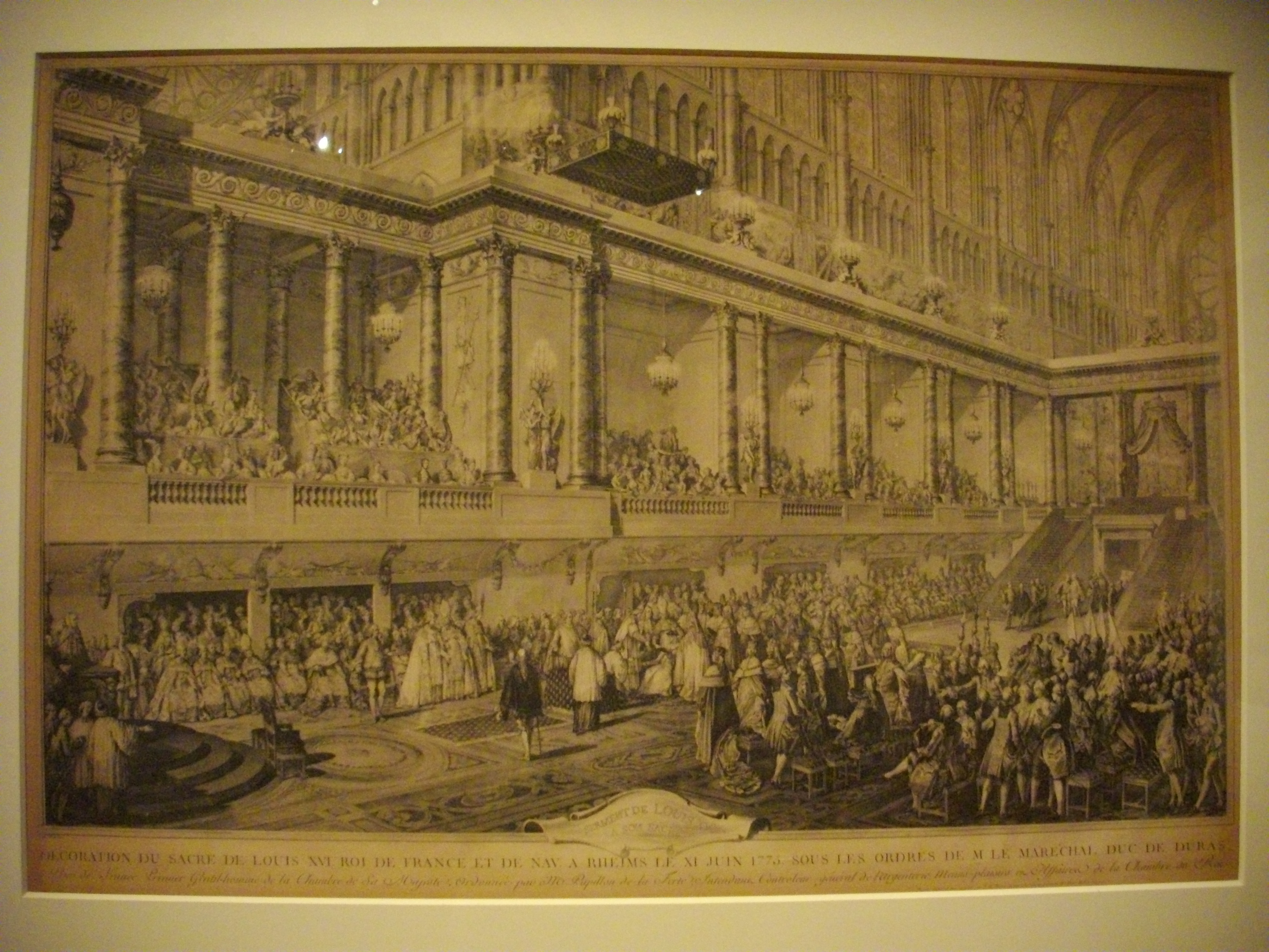 2014 exhibition « Royal Coronations, from Louis XIII to Charles X » in the palais du Tau of Reims (Marne, France) : Jean-Michel Moreau, Coronation of Louis XVI, July the 11th 1775 : King takes the oath between the hands of the Archbishop, etching, ca. 1775